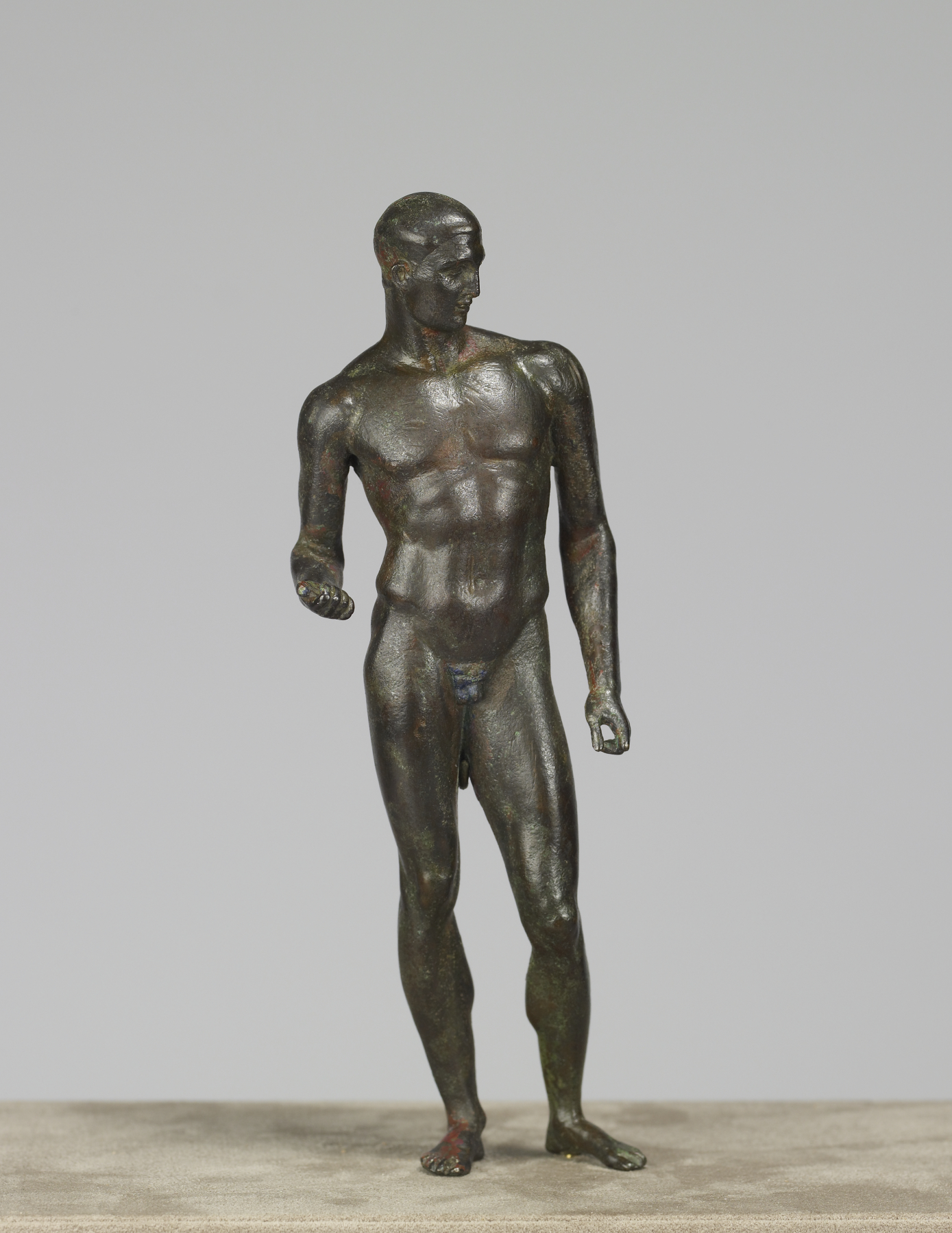 The pose and gesture of the athlete suggest that he is a discus thrower preparing for competition. The statuette's stance recalls Classical sculpture, while the long limbs, small head, and exaggerated breadth of the shoulders are characteristic of late Hellenistic works.